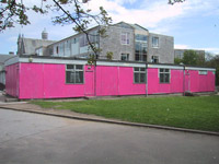 Temporary classroom painted pink in 2002, by 6th year pupils on their last day at Aberdeen Grammar School, Aberdeen, Scotland. Category:Aberdeen